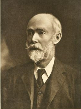 Sir Sidney Colvin (1845-1927) Photograph from frontispiece of Memories & notes of persons & places, 1852-1912 2nd ed. (1922)